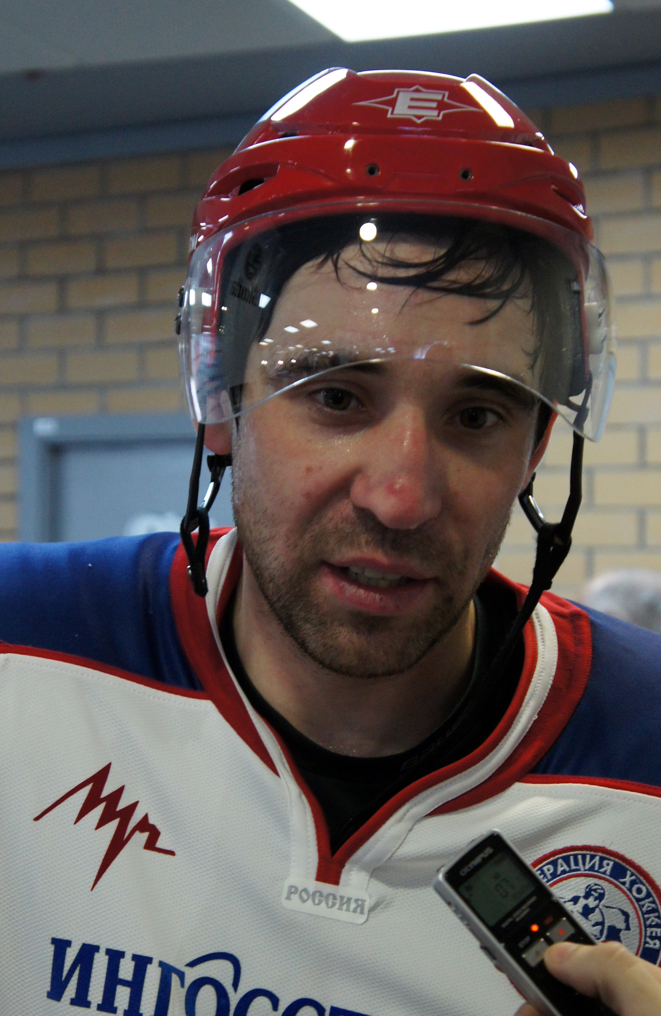 Russian ice hockey player Danis Zaripov at 2010 First Channel Cup in Moscow. Special thanks to Alex Malygin